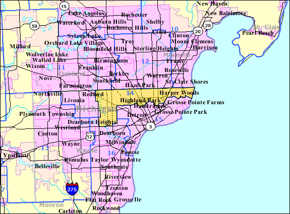 Map of Michigan's 14th congressional district for the en:106th United States Congress, illustrating boundaries prior to redistricting in 2002.